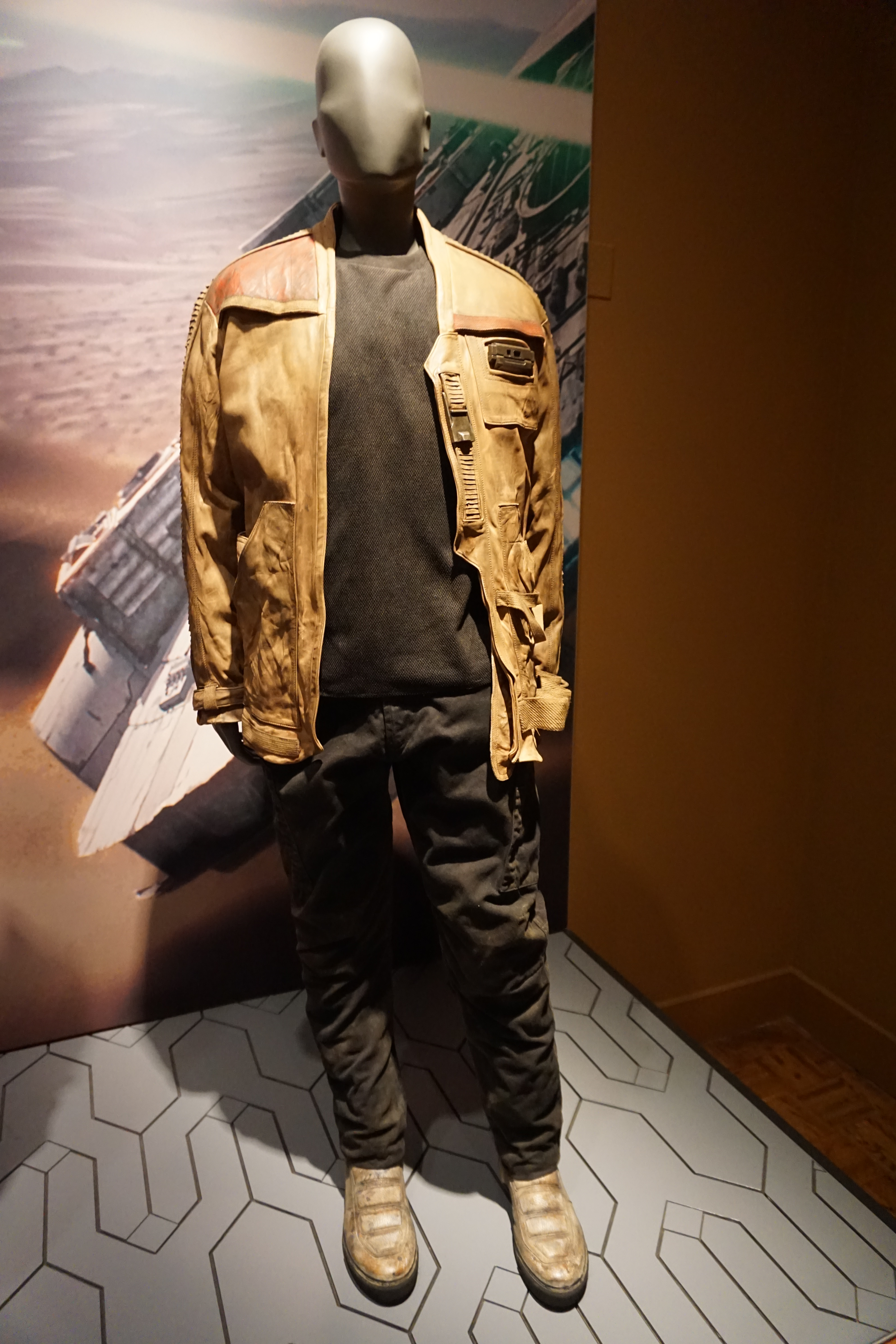 Finn's costume from Star Wars: Episode VII – The Force Awakens on display at the Star Wars and the Power of Costume traveling exhibit at the Detroit Institute of Arts in Detroit, Michigan (United States).